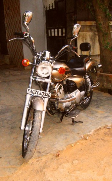 Front view of Yamaha Enticer